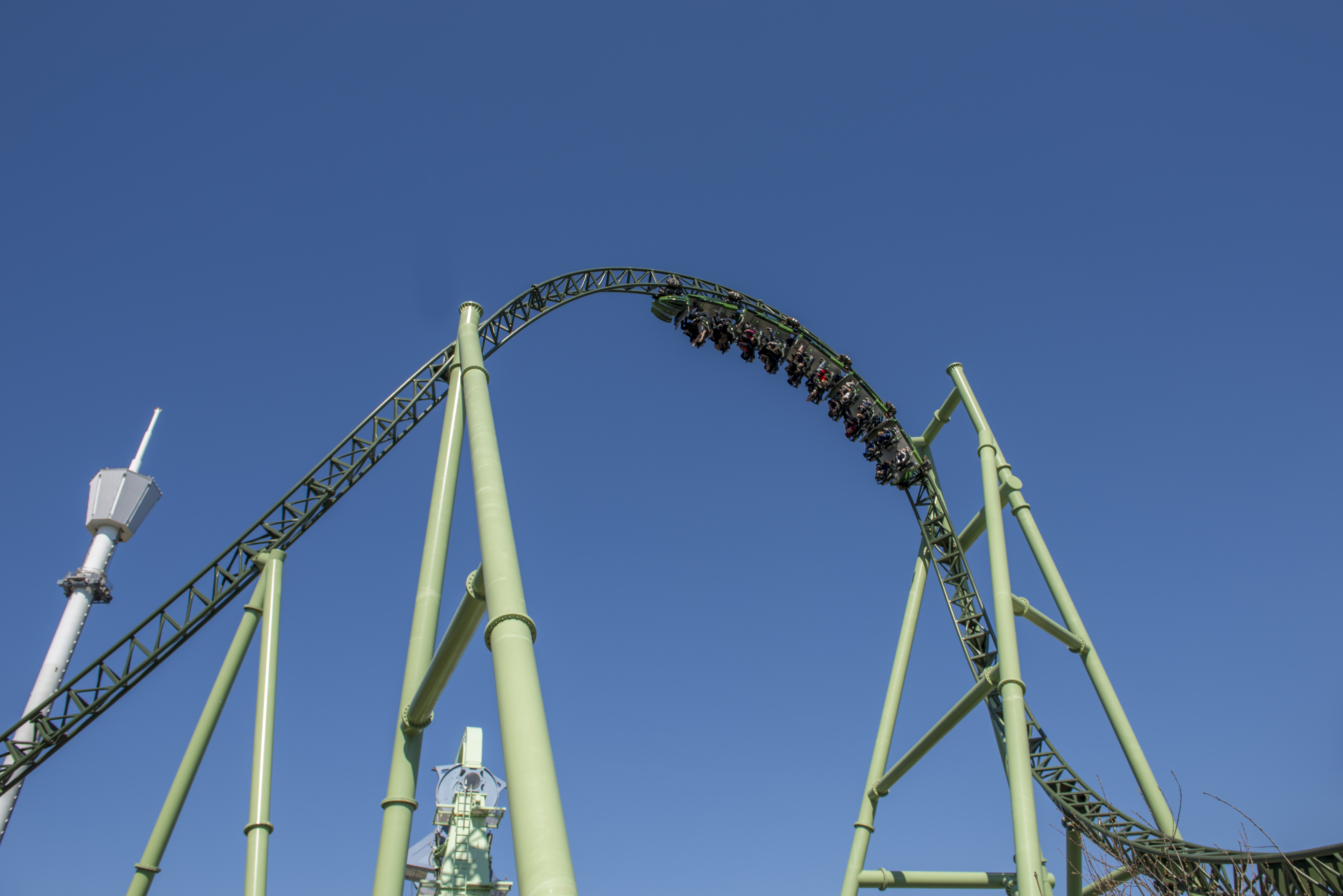 The Helix roller coaster at Liseberg, Sweden. The photo was taken at the premiere, 26 april 2014.